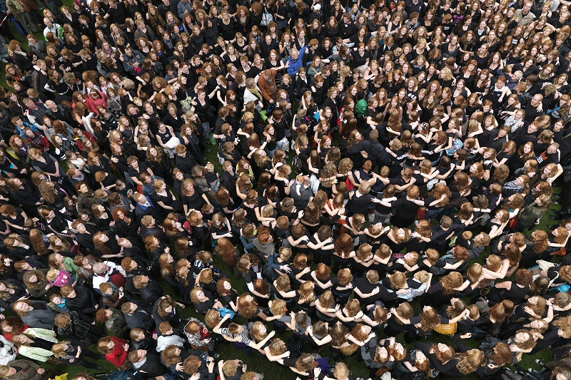 Thousands of redheads together at the annual redheadday in Breda, the Netherlands. More information on this photo can be found on the website of the event: The photo was made by Bart Rowuenhorst